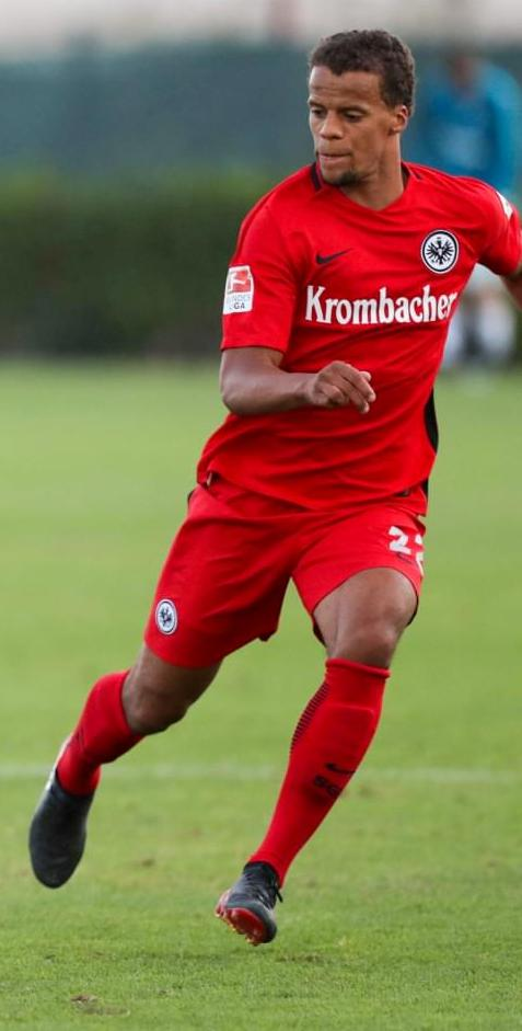 Timothy Chandler, player of the German 1st Bundesliga club Eintracht Frankfurt, and (former) US international player, in a friendly match against Zenit Saint Petersburg at Jebel Ali Golf Resort, Emirate of Dubai (UAE).